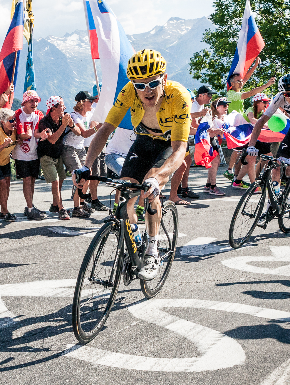 Geraint Thomas on the climb to Alpe d'Huez at the Tour de France 2018, wearing the yellow leader's jersey